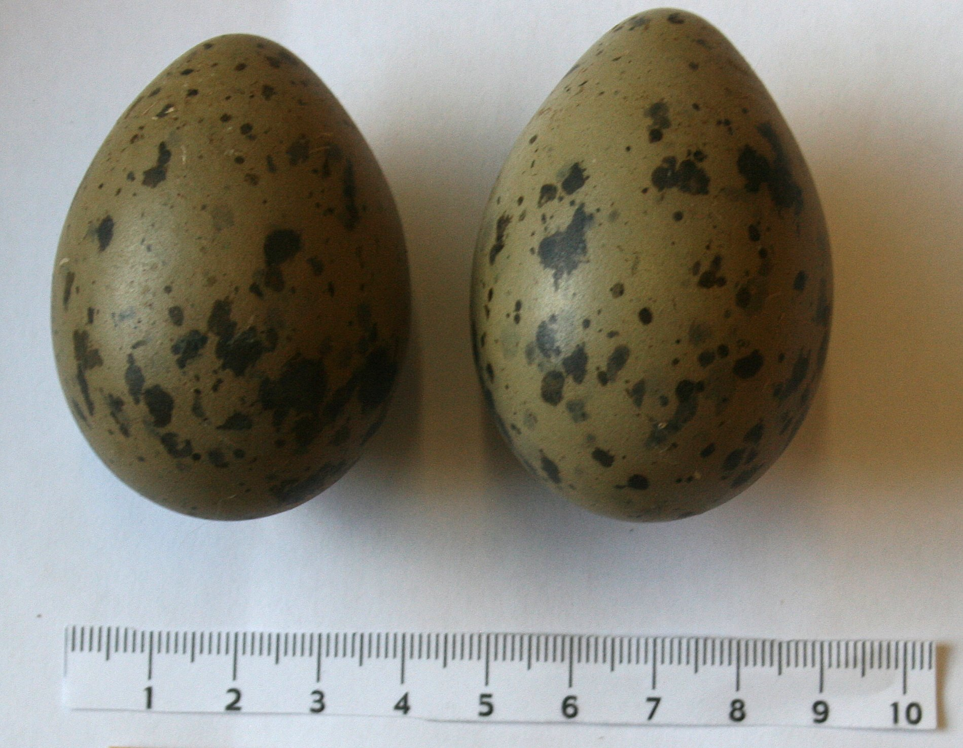 Larus argentatus eggs measured using a metric ruler. From V.Vuorisalo ja Y.Karra collection. Donated 15.6.1921 to Kokemäen Yhteiskoulu. Eggs are picked from Heinäsaari